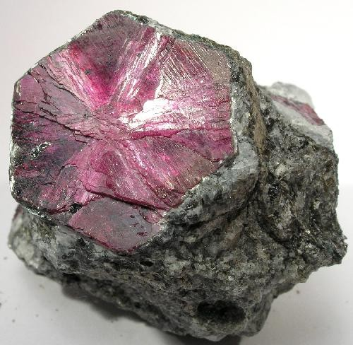 Corundum (Var.: Sapphire) Locality: Zazafotsy Quarry (Amboarohy), Zazafotsy Commune, Ihosy District, Horombe Region, Fianarantsoa Province, Madagascar (Locality at ) Size: 5.5 x 4.2 x 3.3 cm. Gorgeous magenta-colored Sapphire, in matrix, a full 2.5 cm across and seemingly 3 cm down into the matrix (based on the visible hexagonal shape).